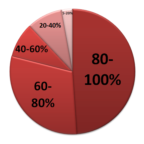 Number of Hungarians in Slovakia according to their local percentage (census 1991).